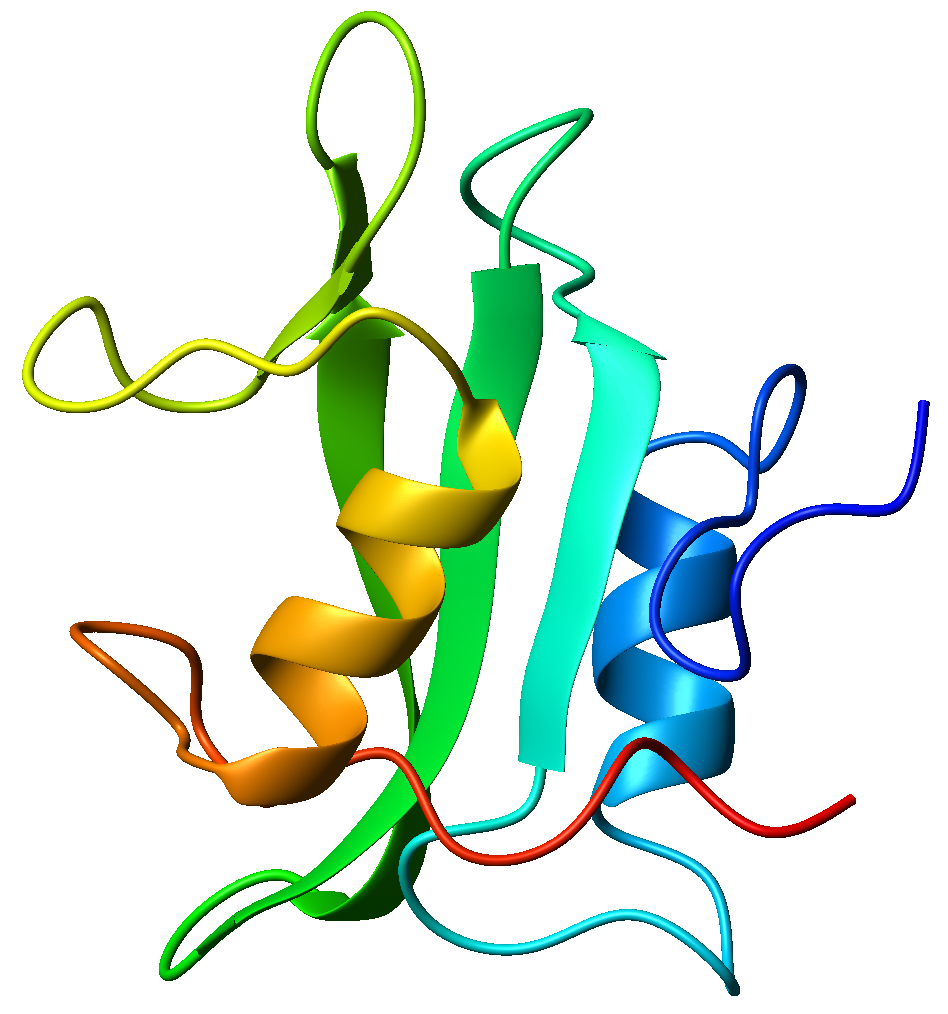 Ribbon diagram of the SH2 domain from P56-Lck tyrosine kinase (PDB accession code 1lkk, chain A). Made with MOLMOL.